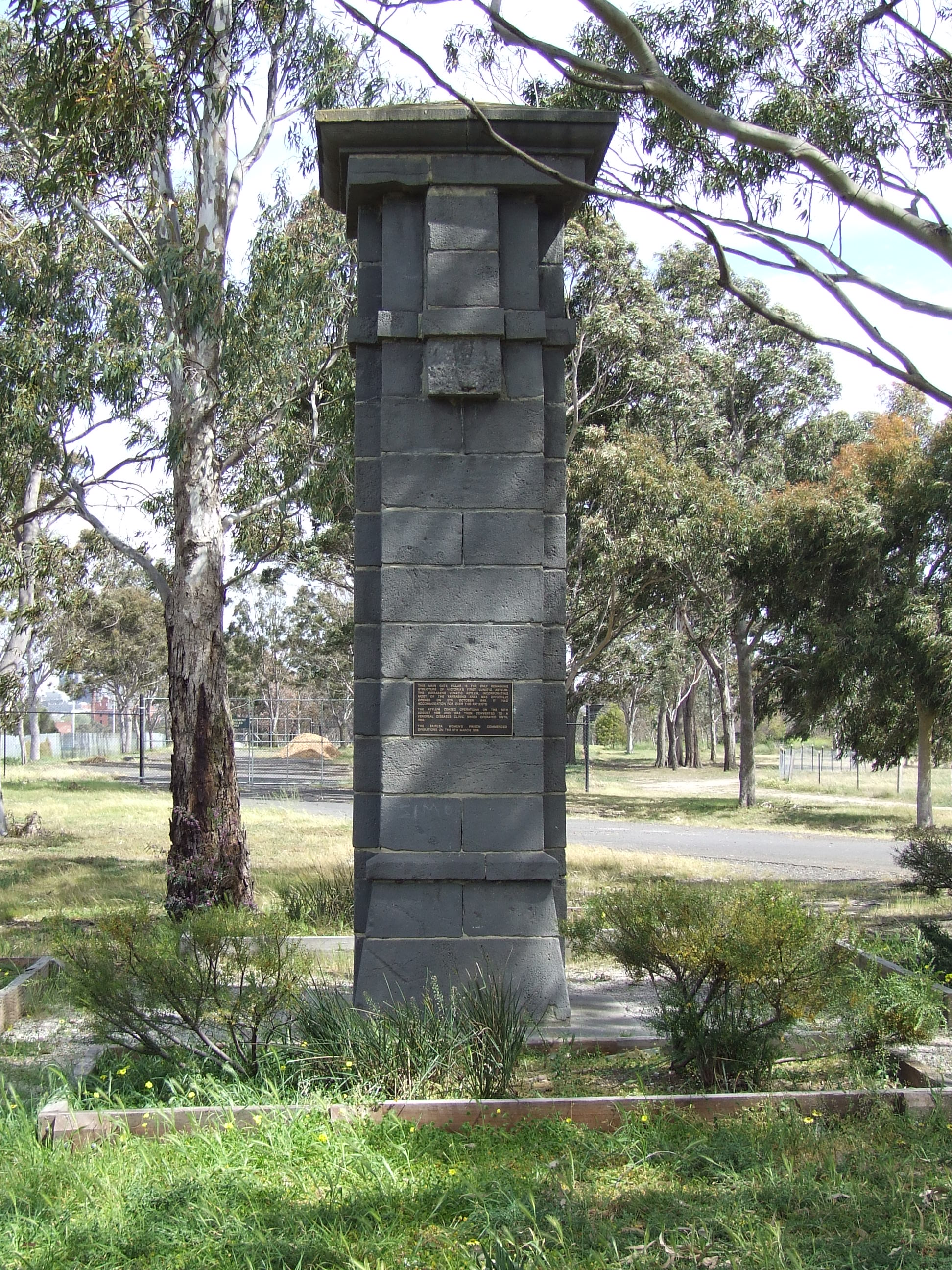 One of the gate posts of Yarra Bend Asylum. This is the only remaining structure of the Asylum